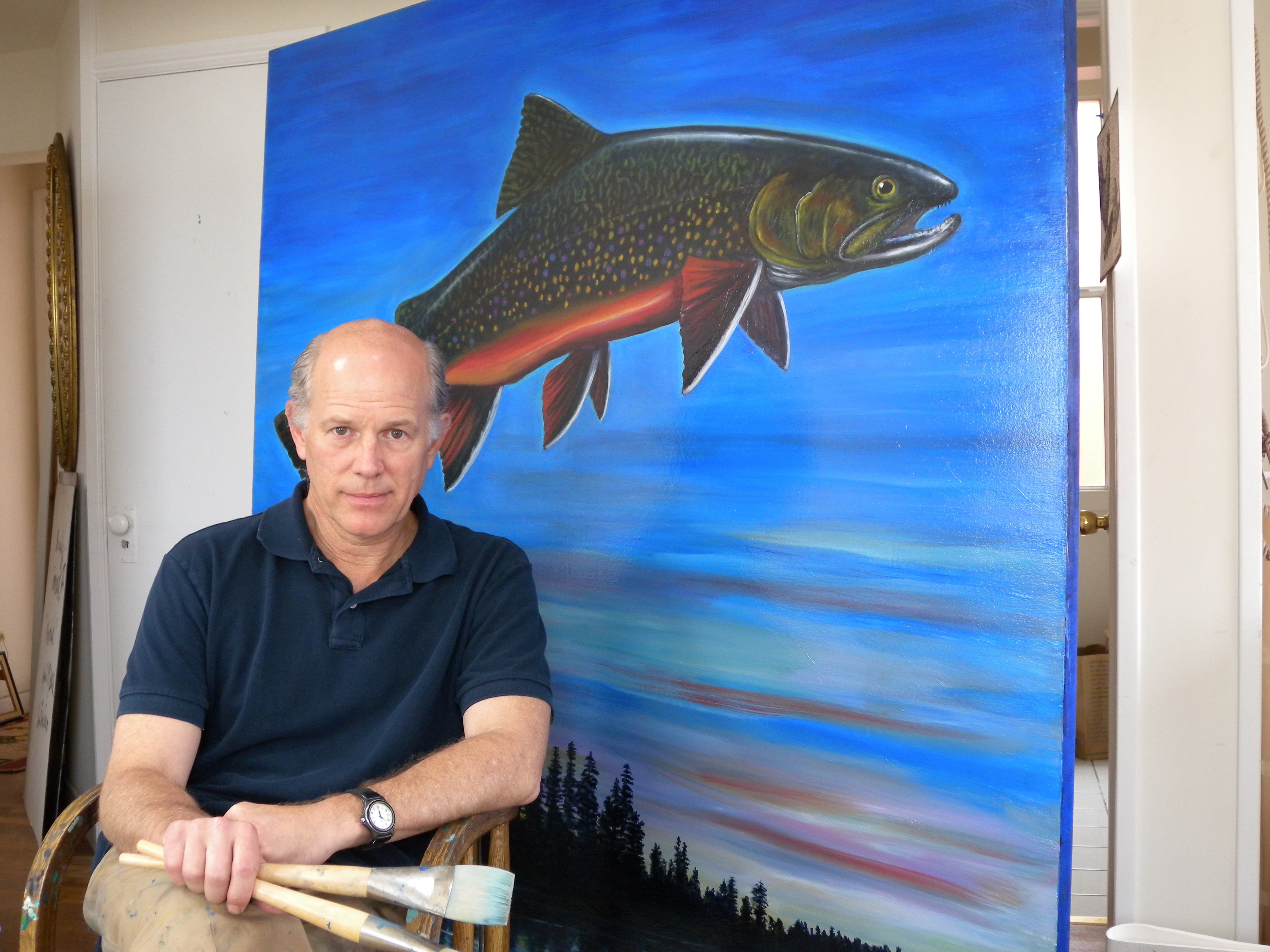 American author, painter, and editor Barnaby Conrad III seated next to his large painting of a leaping trout, from his "Life Aquatic" series.